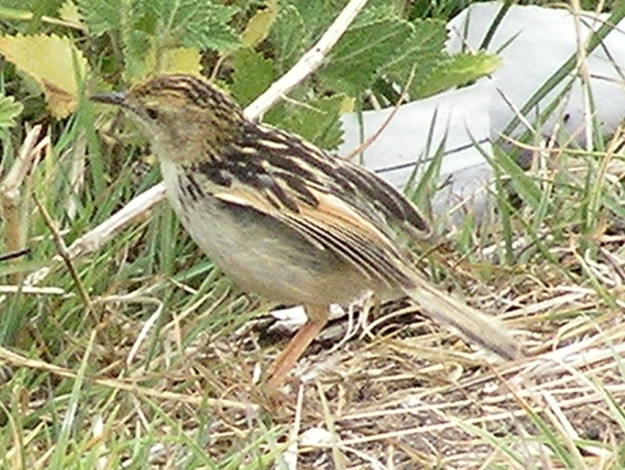 Pectoral Patch Cisticola in Debre Berhan, Ethiopia. It is to be seen all year ground in damp surroundings at altitude of 2800 metres.